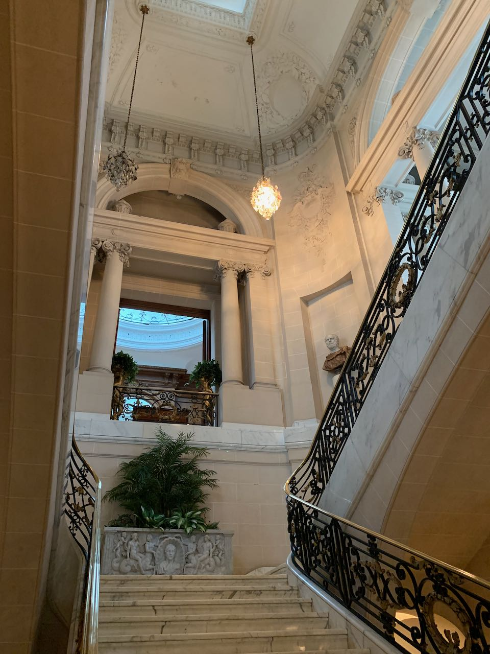 The grand stairway, or escalier d'honneur, of the Perry Belmont House.